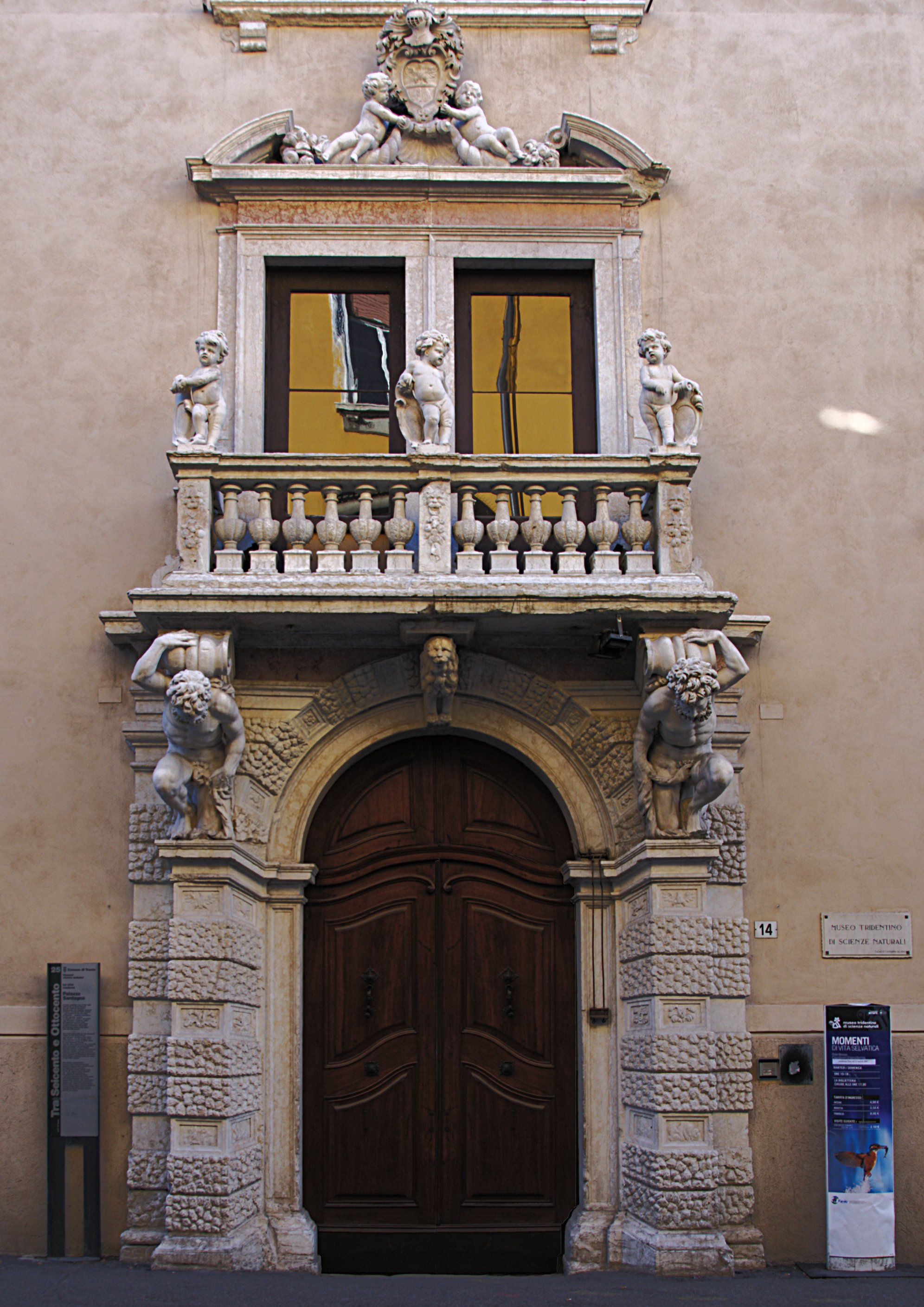 Museo Tridentino di Scienze Naturali, Trento, Italy